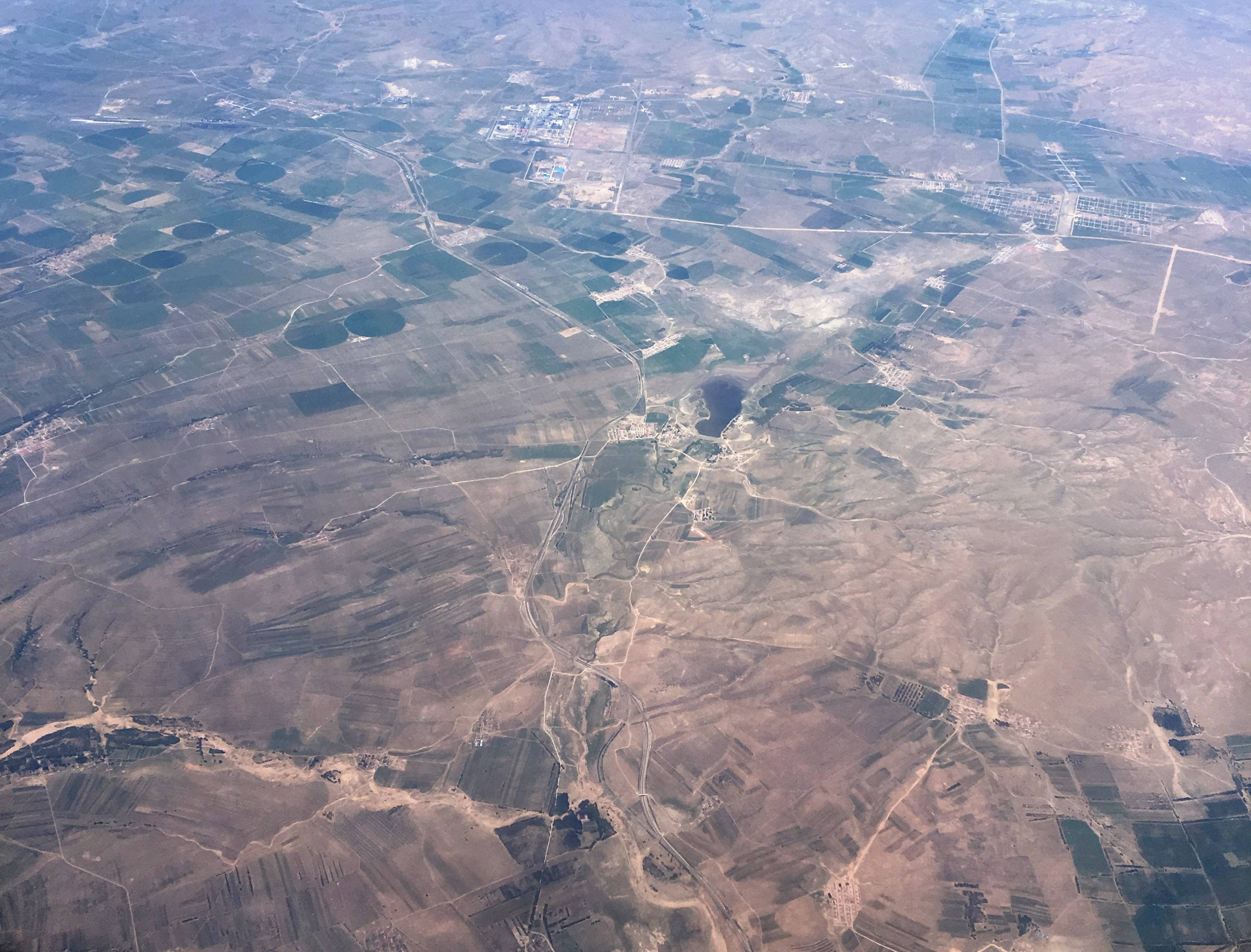 Benhongzhen industrial town in the background, Shimenkou reservoar lake in the center of the image. From the foreground Winds the Jitong Railway line.